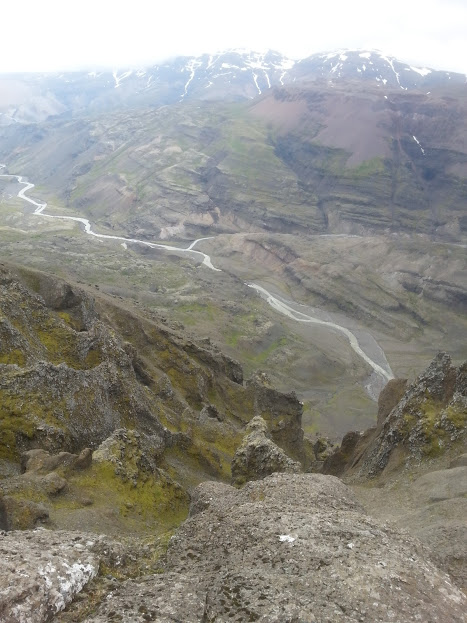 Jökulsá í Lóni.